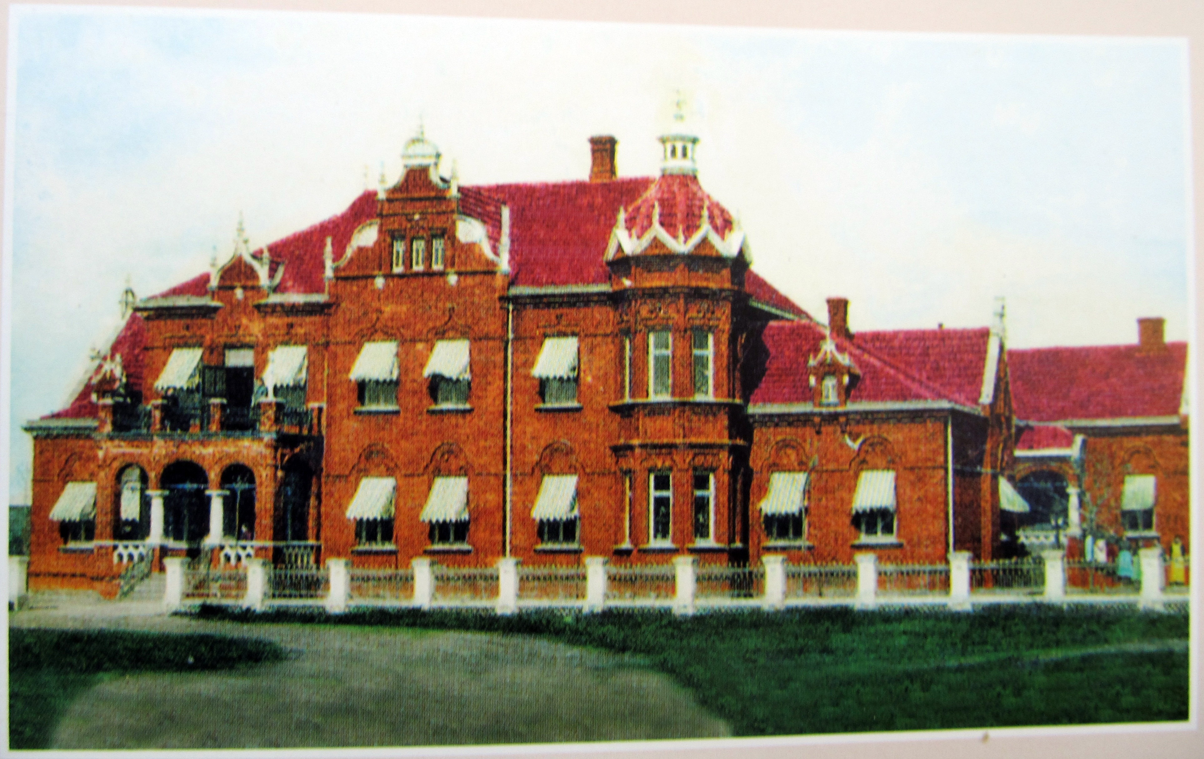 Klassen family house in Prigorye (nowtime Luhove, Melitopolskyi Raion, Zaporizhia Oblast, Ukraine). Early 20th century postal card.